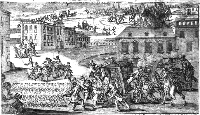 Kidnapping of Polish King Stanisław August Poniatowski in 1771